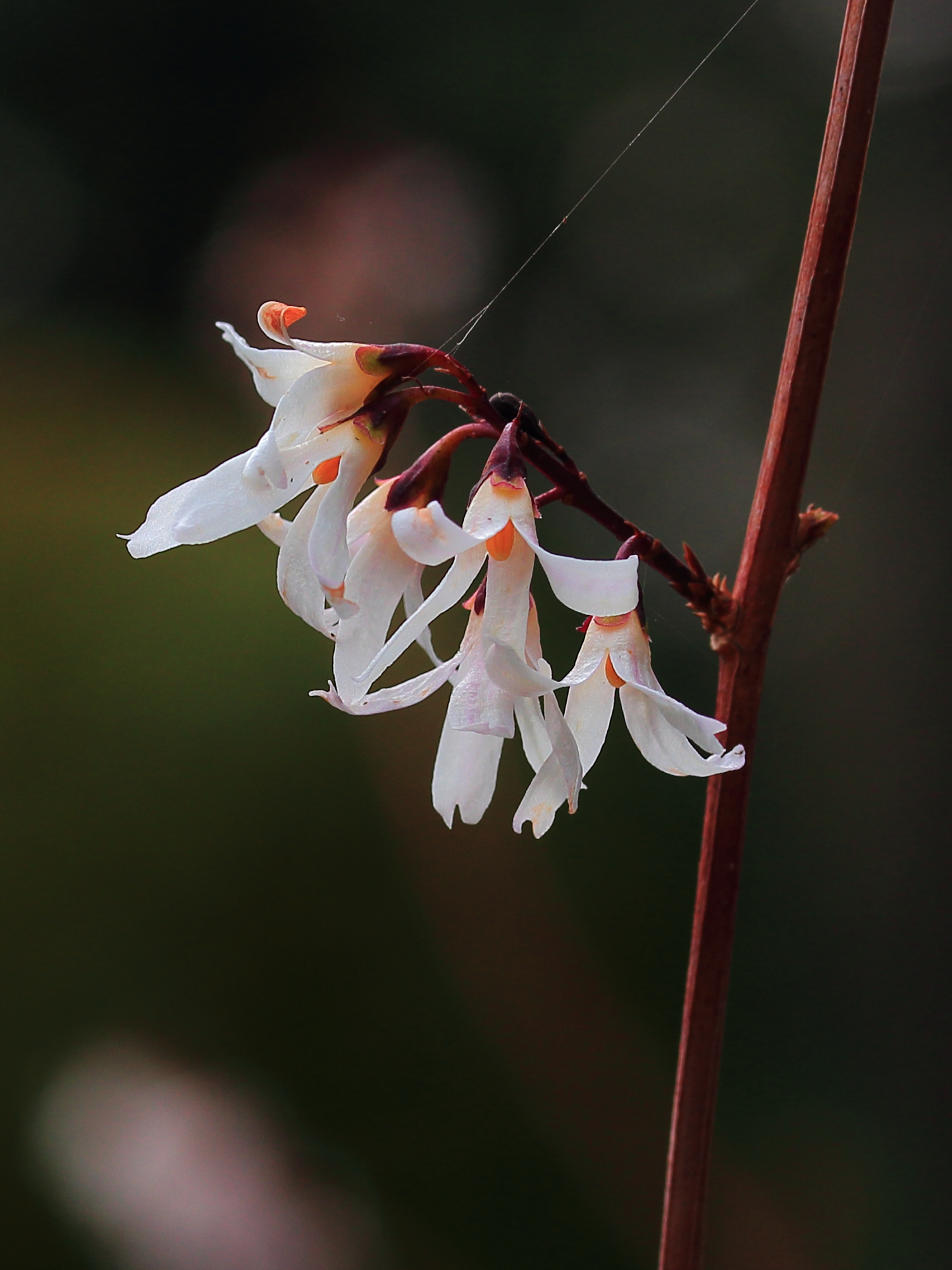 The shrub Abeliophyllum distichum blooms in March with small flowers.